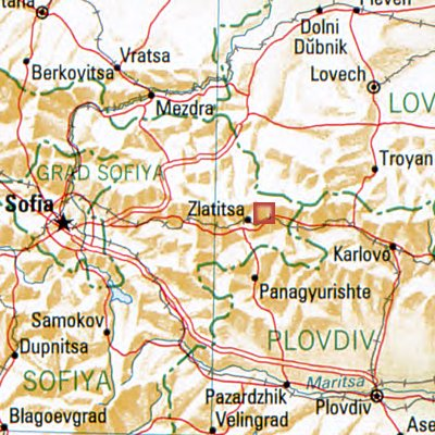 Bulgaria 1994 CIA map, city: part of the map Bulgaria_1994_CIA_map.jpg This image is in the public domain because it contains materials that originally came from the United States Central Intelligence Agency's World Factbook.